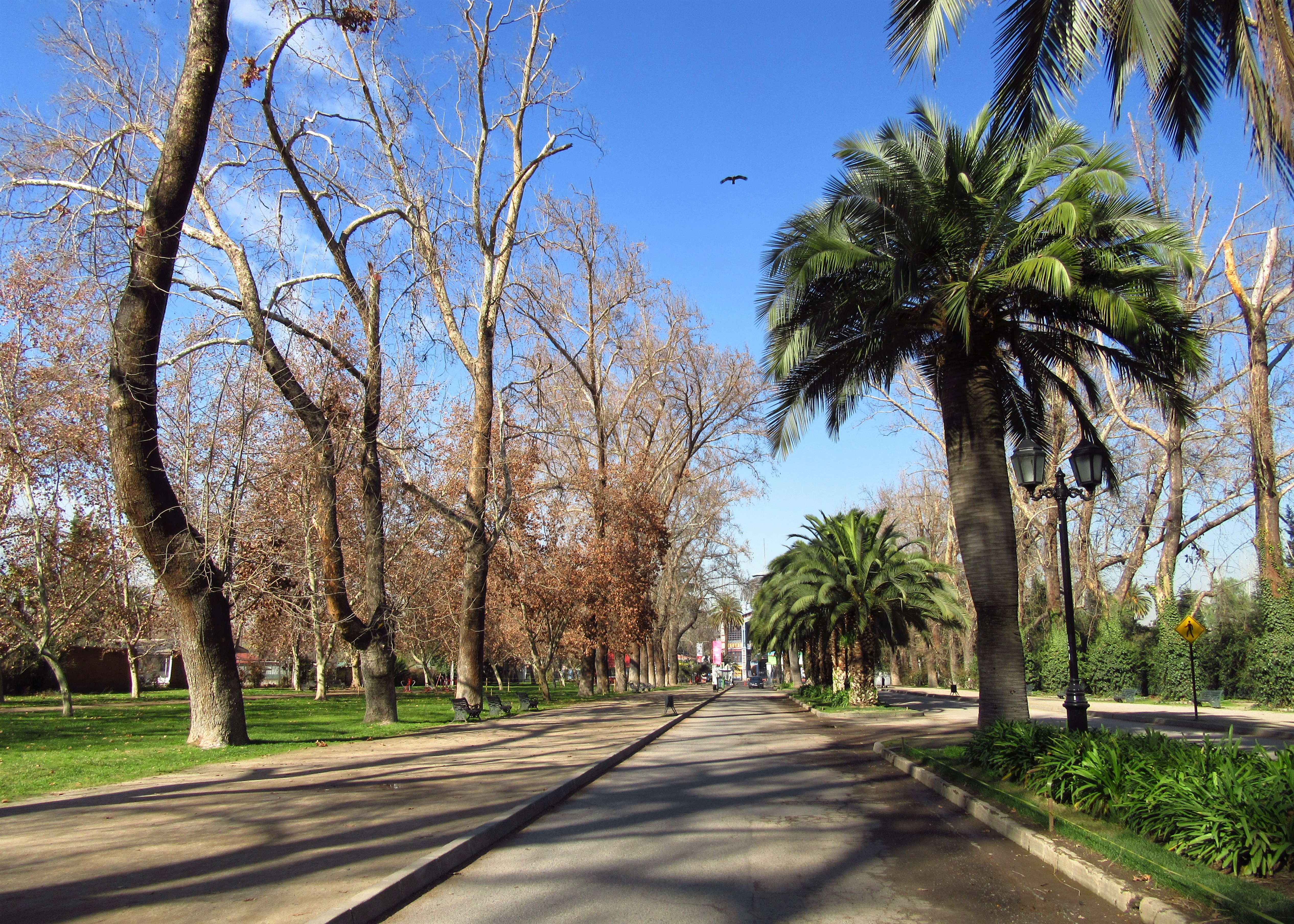 2017 in Santiago de Chile